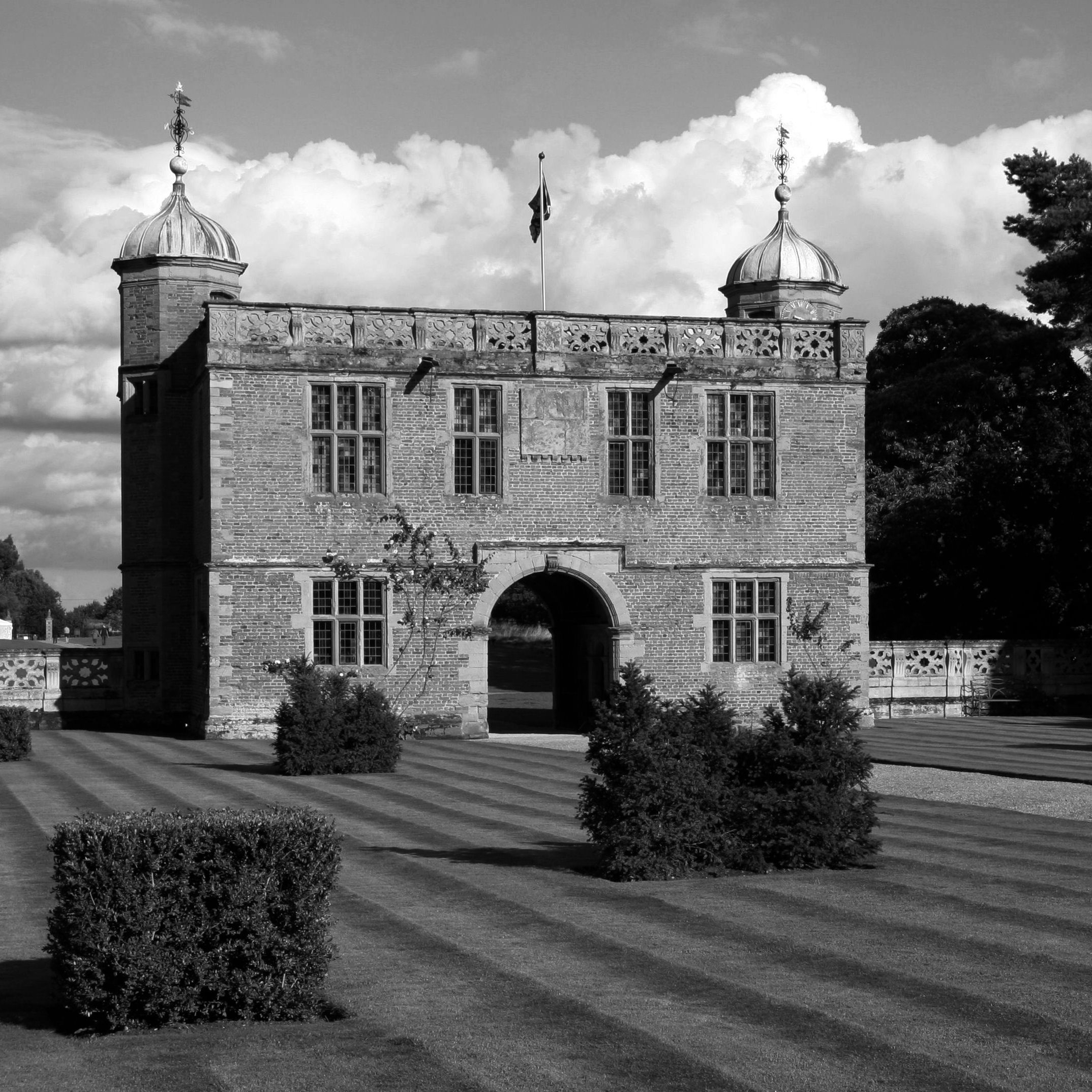 Charlecote Gate House